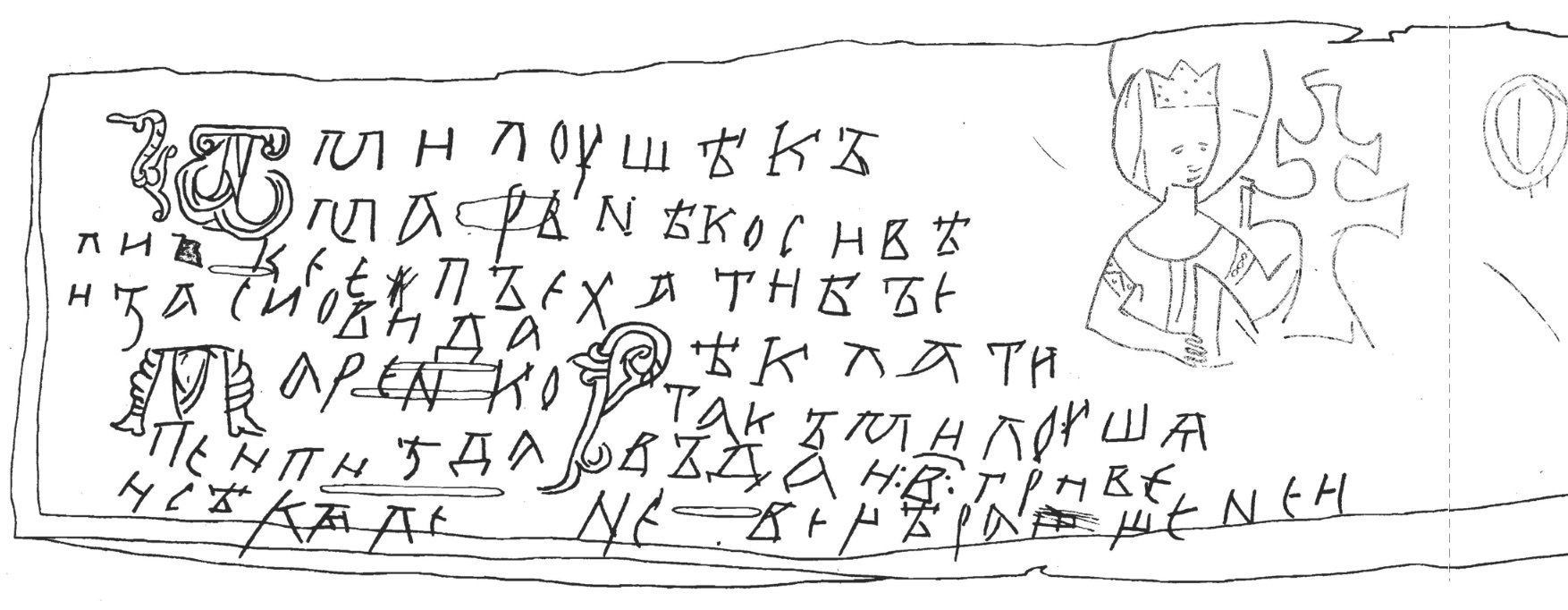 Birch bark manuscript № 955